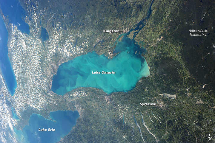 The aerial image, taken from space, shows a calcium carbonate precipitate cloud forming in Lake Ontario. This cloud forms what is known as a whiting event.